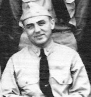 LCDR Maxwell F. Leslie, USN, commanding officer of bombing squadron VB-3, in April 1942 aboard the USS Enterprise (CV-6).